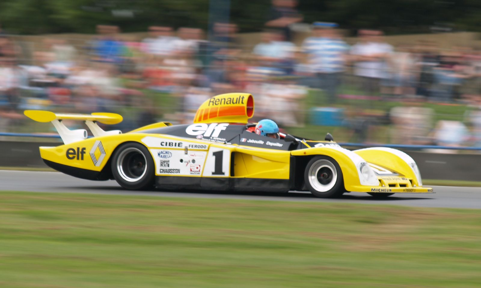 The Renault Alpine A443 sports prototype racing car being demonstrated during the World Series by Renault event at Donington Park, September 2007.